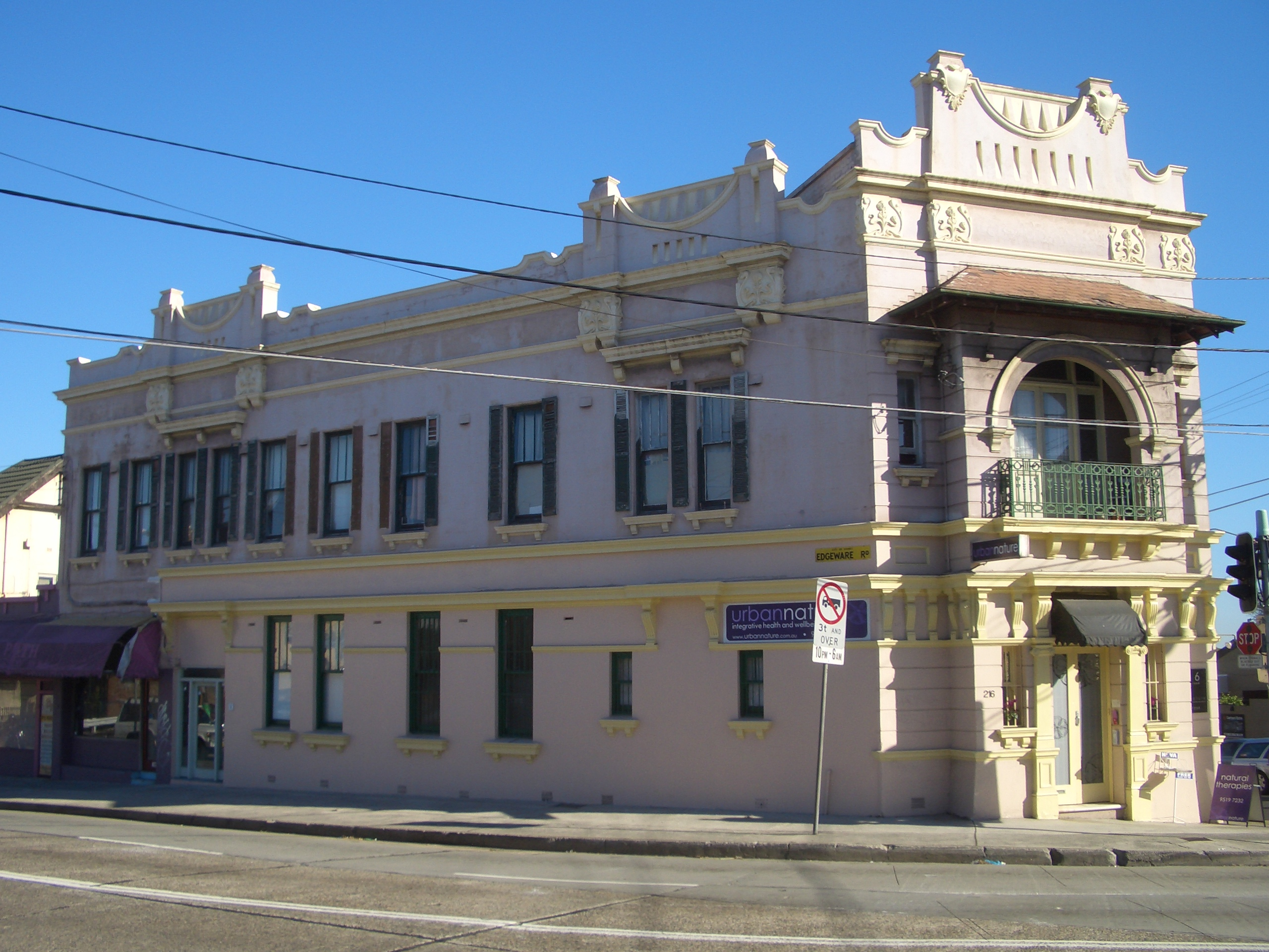 Enmore Road and Edgeware Road intersection, Enmore